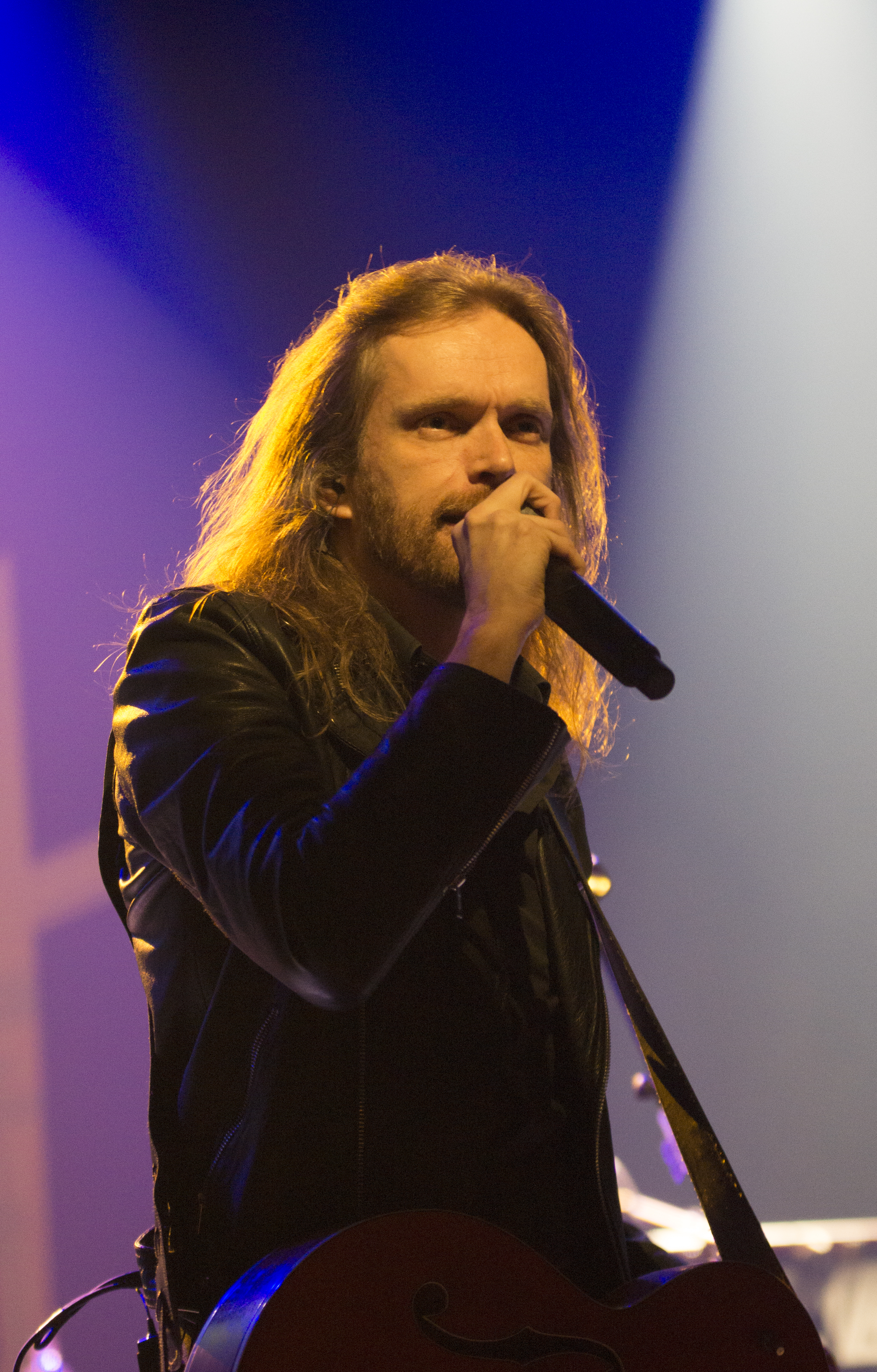 Anssi Kela and his band performing at Espoo's Sellosali on September 18, 2015